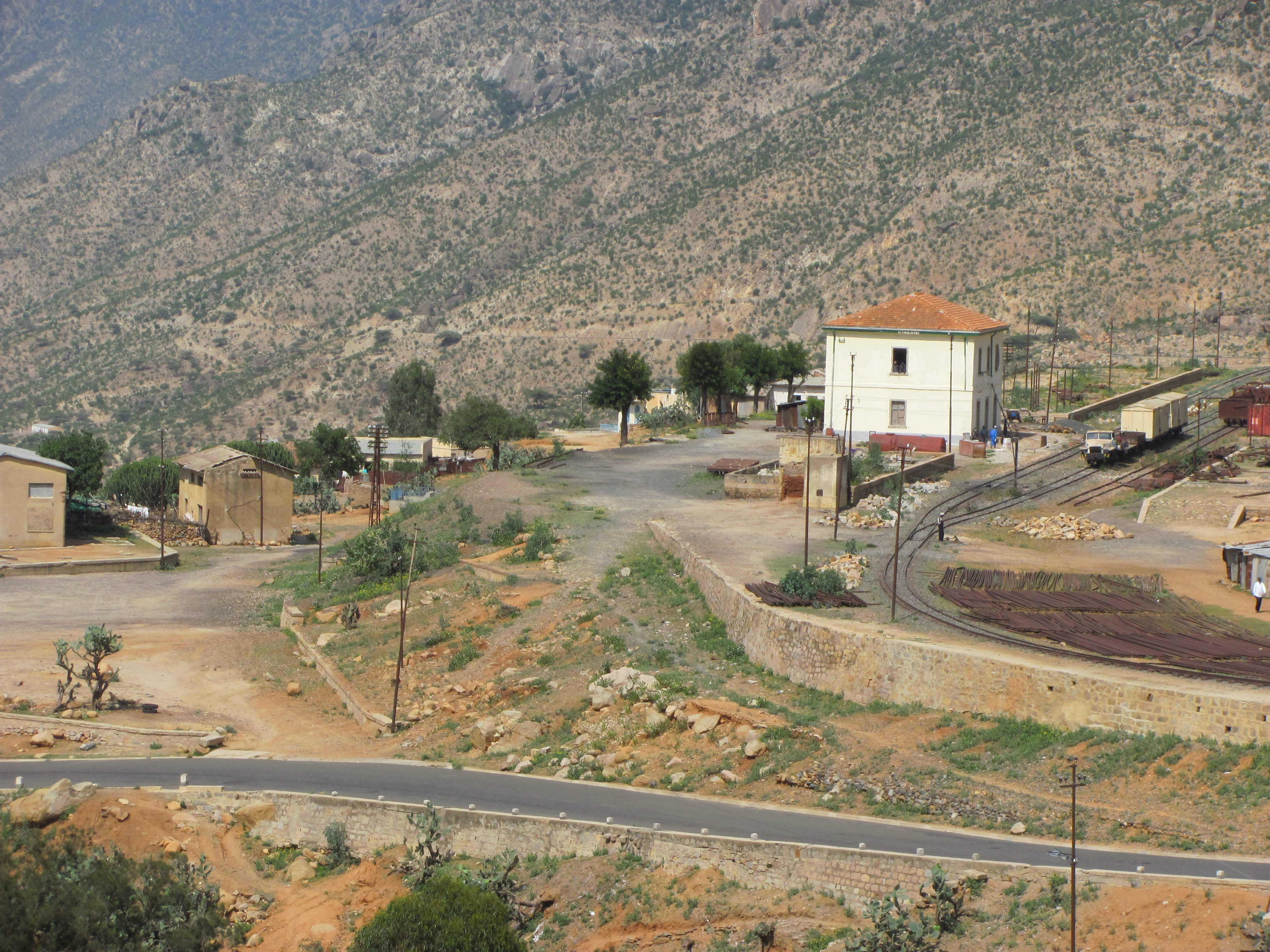 Nefasit rly station